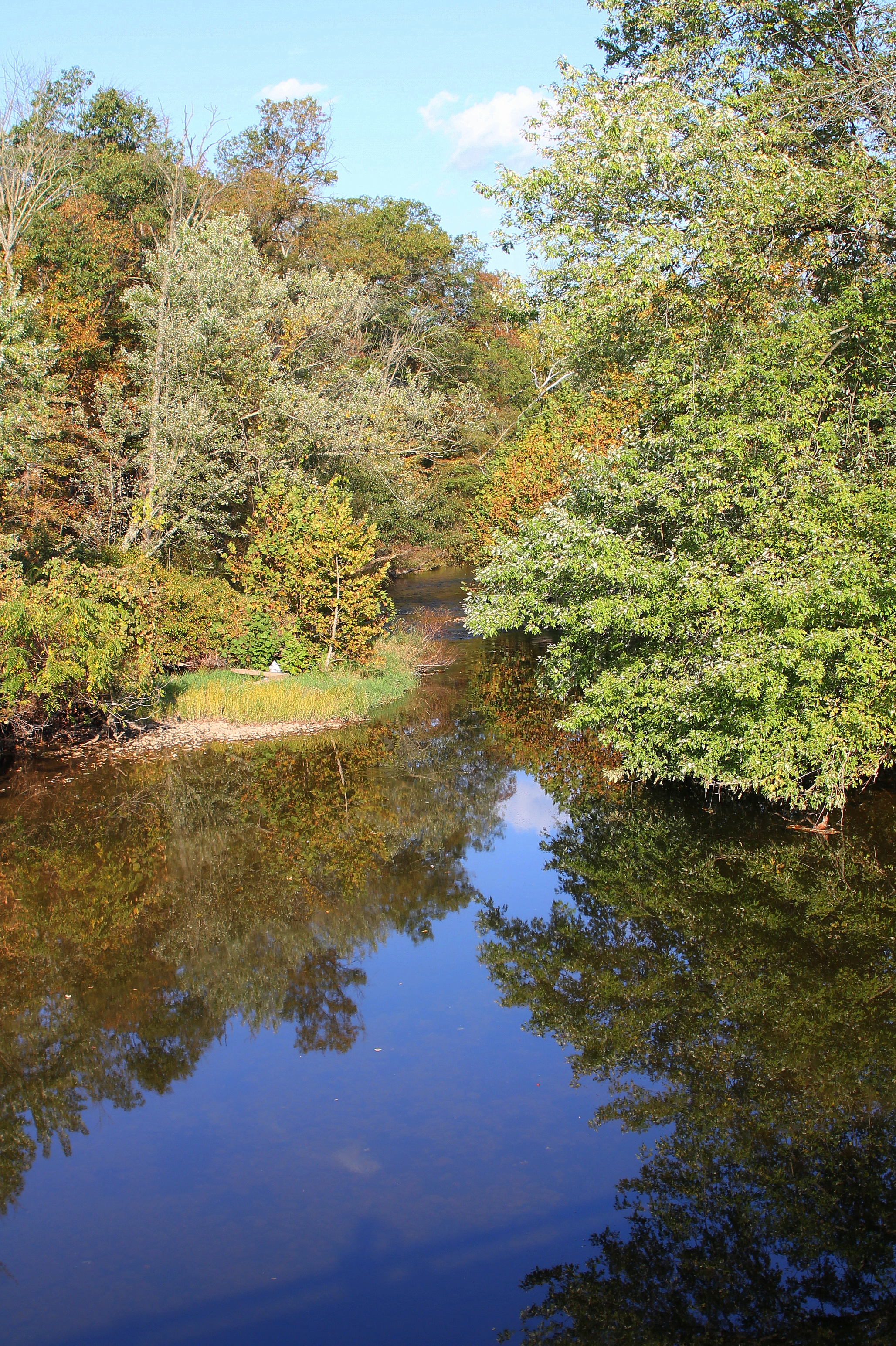 Buffalo Creek from QR 1001